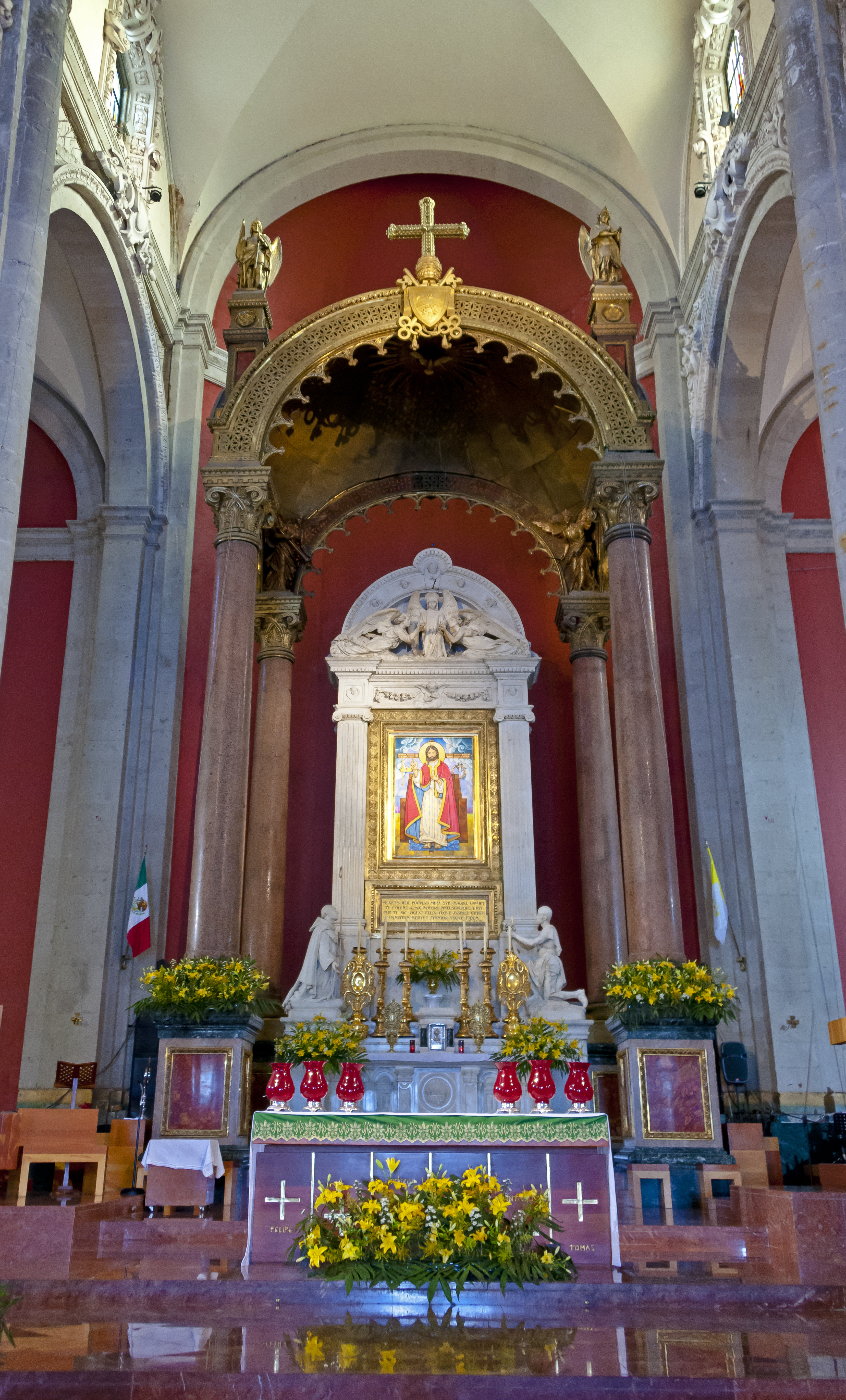 Altar at old Basilica of Our Lady of Guadulupe, Mexico City